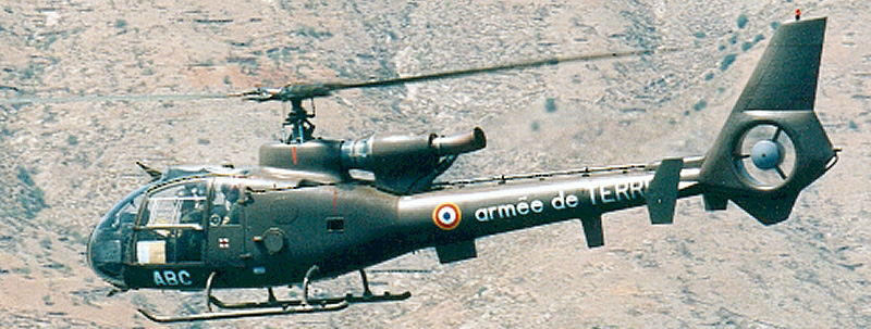 Reco/liaison helicopter Sud-Aviation Gazelle SA 341F2 (registration: F-MABC #1147) of the French Army's Light Aviation (ALAT), Army's Headquarter Squadron (EEMAT). Location: Spanish East coast. Note: The aircraft still wears the plain green livery. The « center-Europe » camouflage type will become during these years the standard in the ALAT.